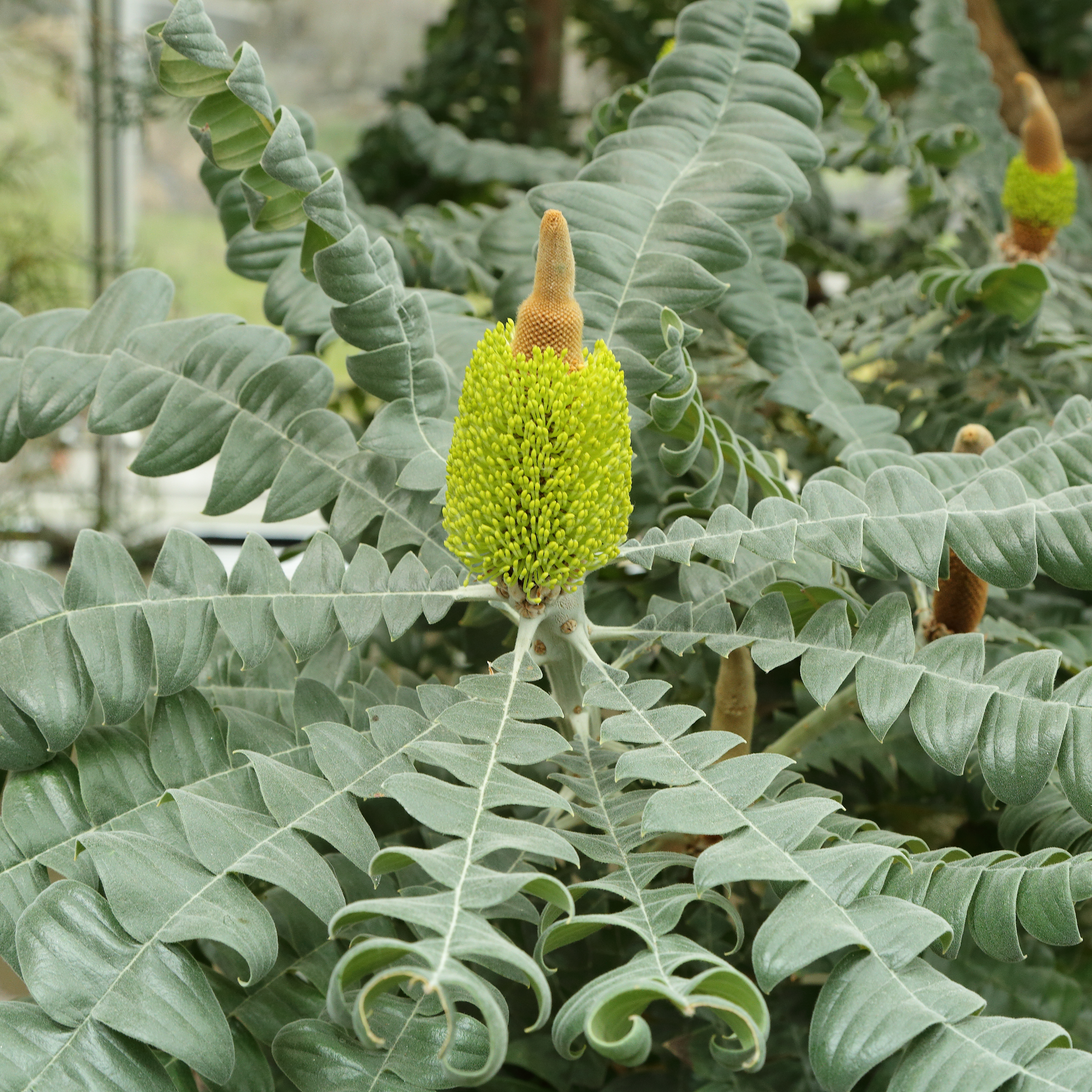 Banksia grandis i Bergianska trädgården.